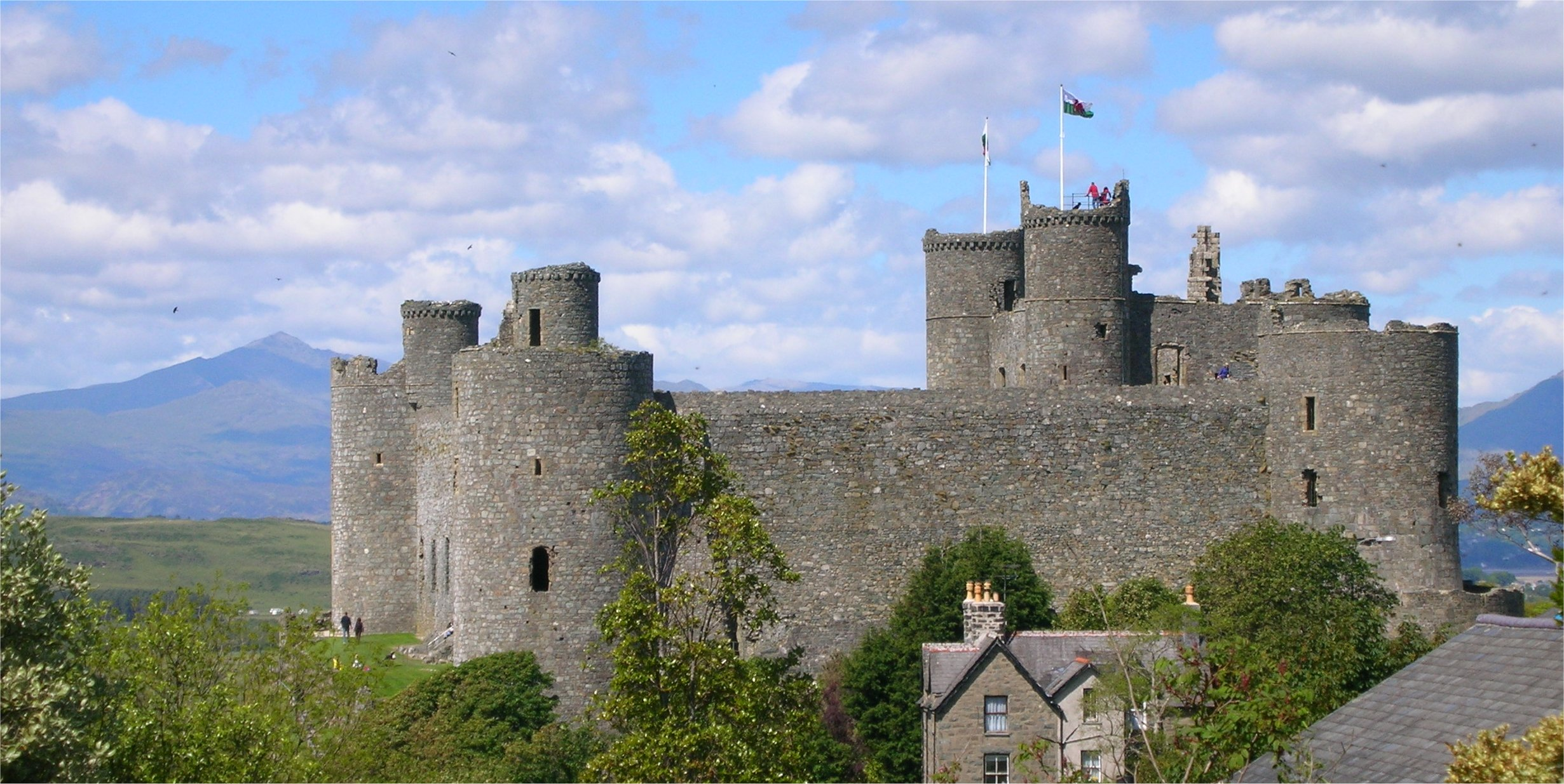 Harlech Castle, Gwynedd, North Wales. Snowdon, the highest mountain in Wales is visible to its left. Photographed by me 29 May 2007. Oosoom